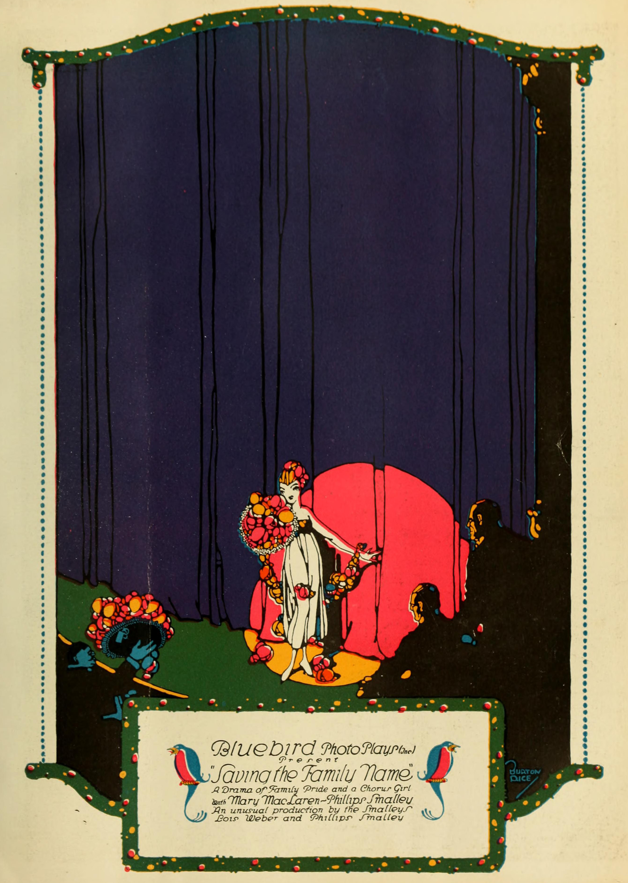 Advertisement in The Moving Picture World for the American drama film Saving the Family Name (1916).